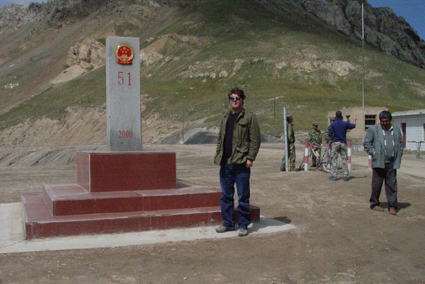 chinese border crossing at Torugart Pass (Bishkek-Kashgar road) (c) POIROT-LELLIG Romain